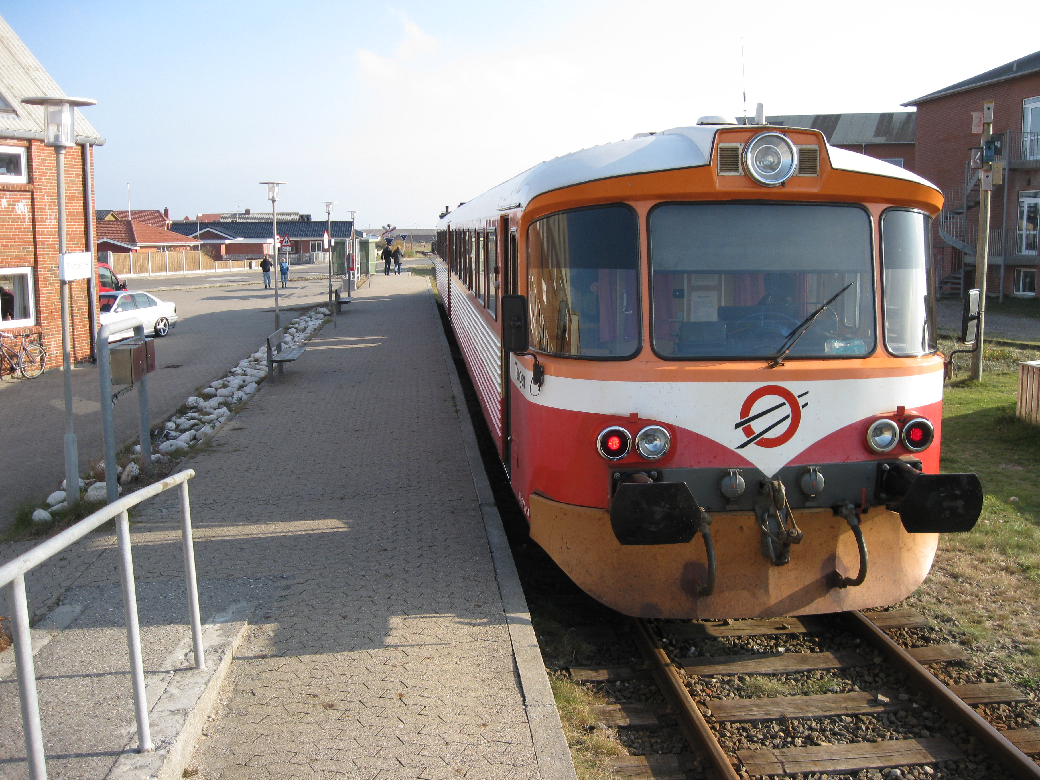 Thyborøn Havn Station, Denmark